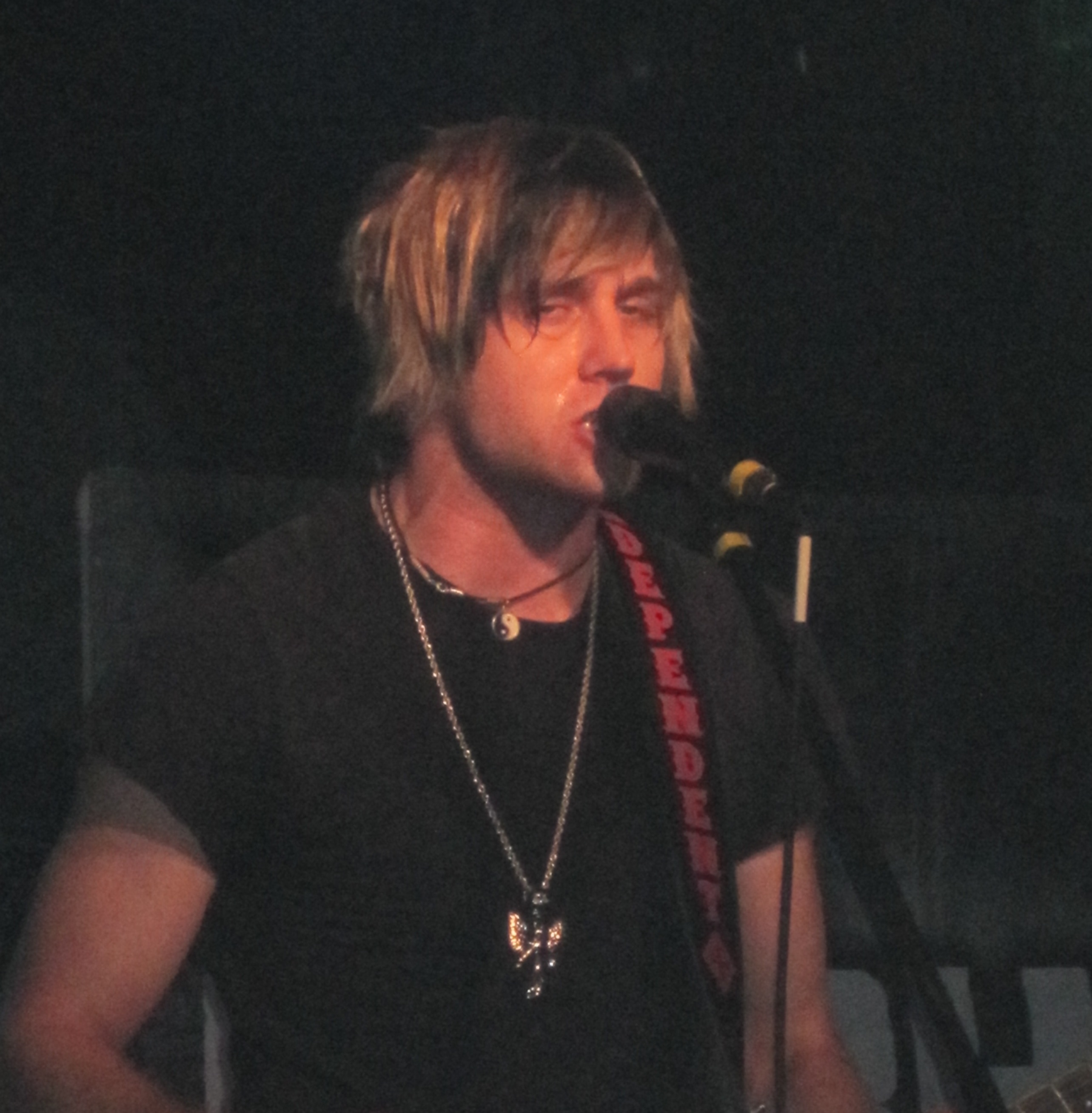 Matt Walst, lead vocalist and rhythm guitarist for My Darkest Days, performing at Piere's Entertainment Center in Fort Wayne, Indiana on November 13, 2010.